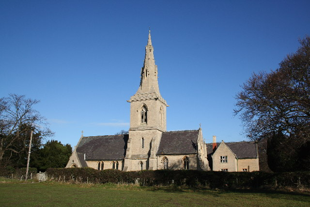 Parish church of St John the Evangelist, Manthorpe, Lincolnshire, seen from the south